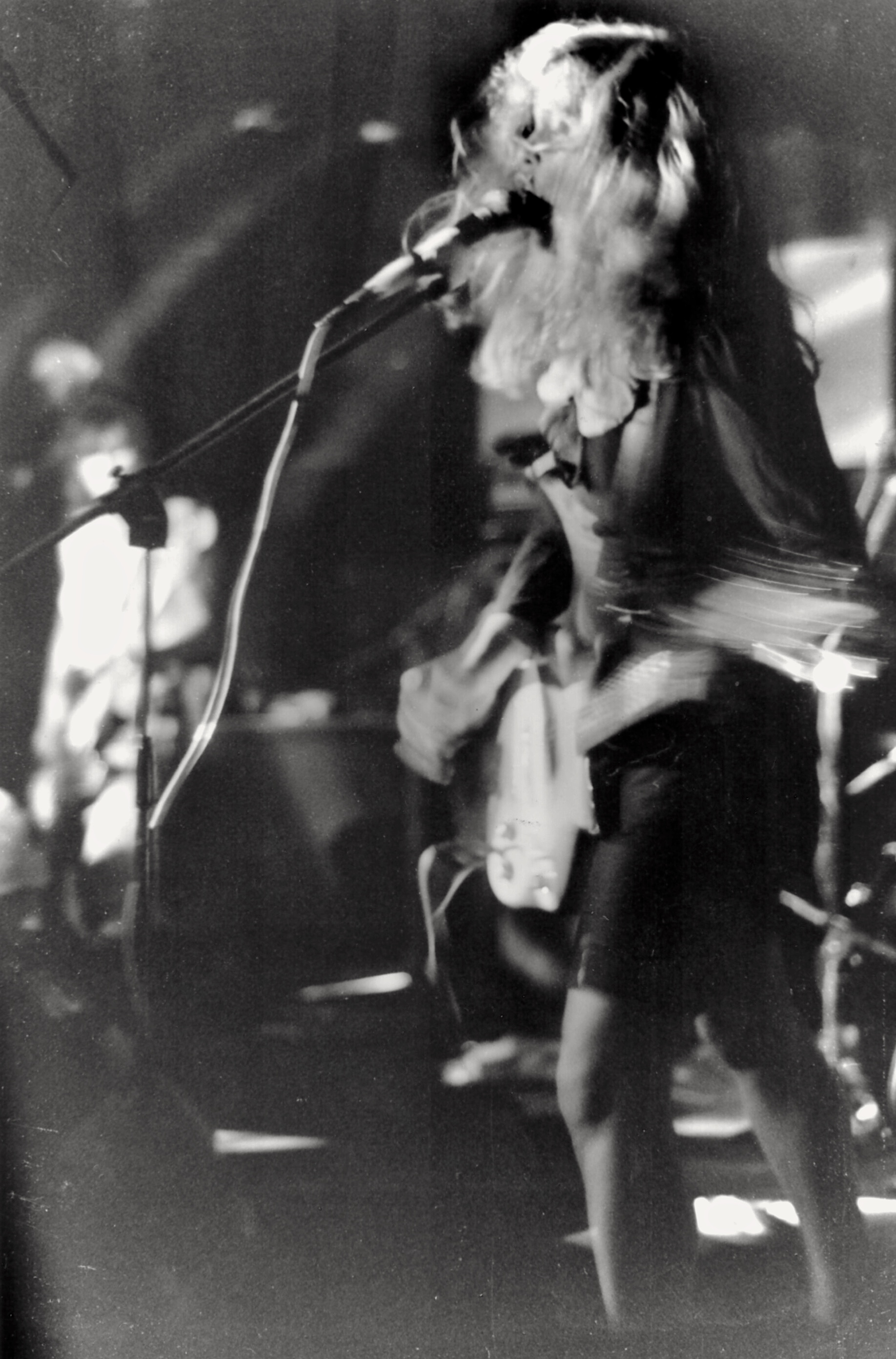 Kat Bjelland performing in Paris, 1991